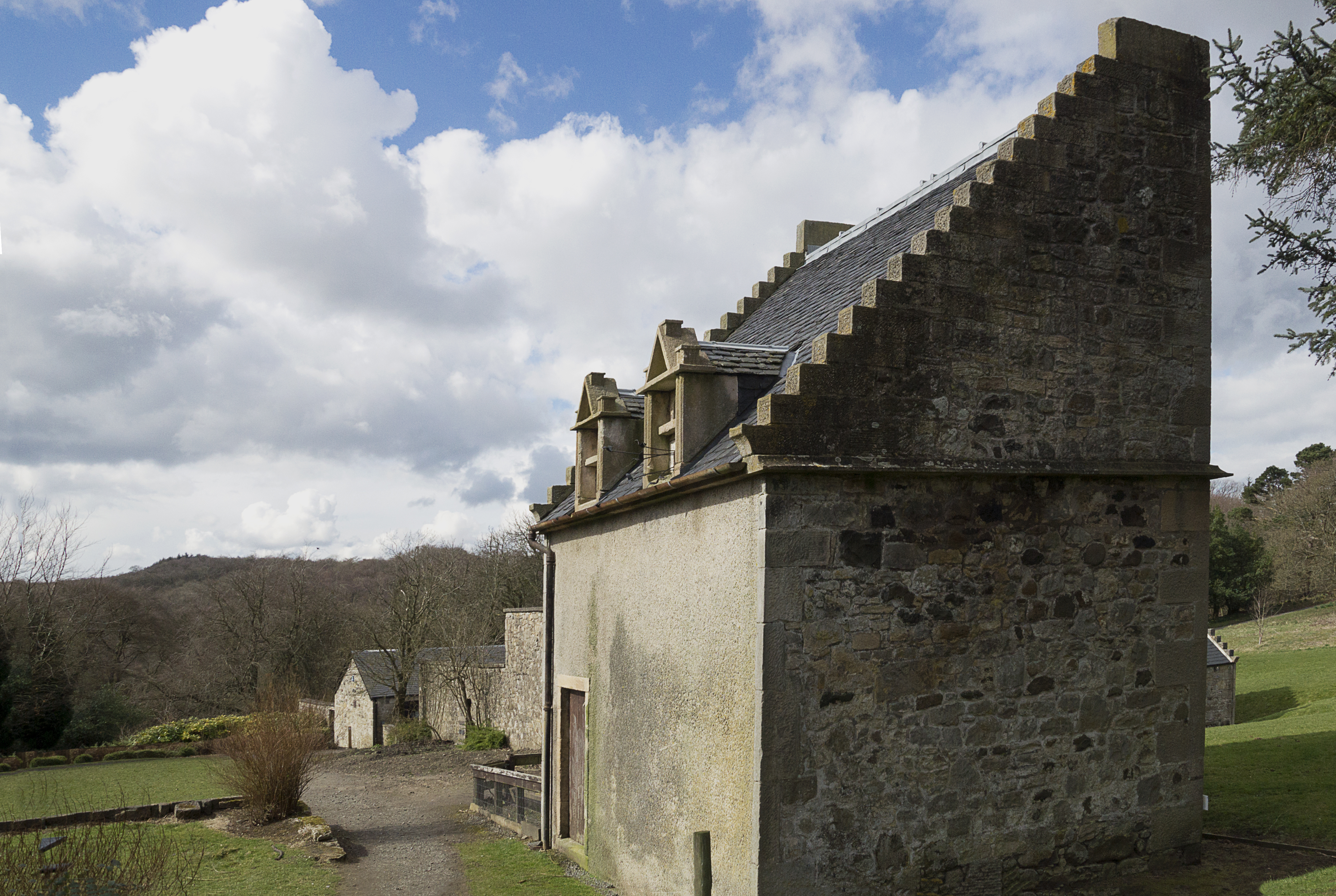 17th century dovecot at Muiravonside a Country Park is 170 acres of woodland and parkland open to the public all year round with marked trails, picnic sites and a play area.[1] It is situated in the south-east corner of the area of Falkirk, two miles south of Grangemouth.